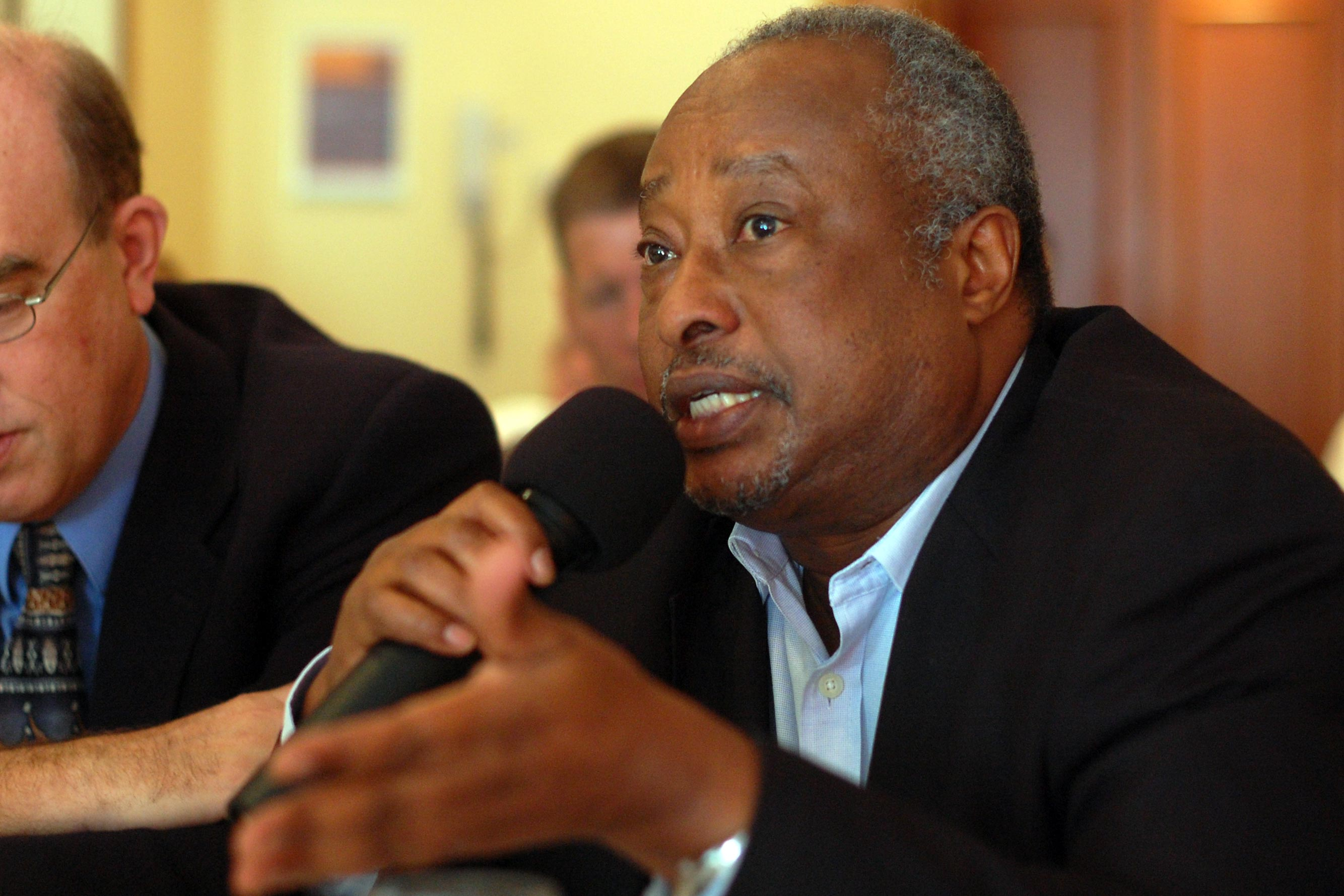 Patrick Mazimhaka, former Deputy Chairperson of the African Union's African Commission, makes remarks at a conference on African Military in Garmisch-Partenkirchen, Germany